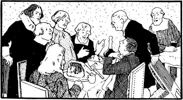 Illustration by Otto Ubbelohde to the fairy tale The Wishing-Table, the Gold-Ass, and the Cudgel in the Sack